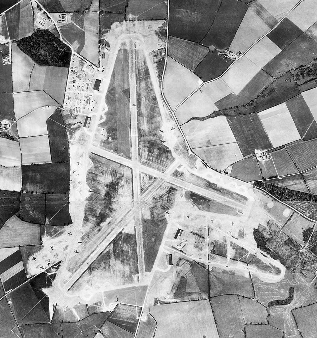 Aerial photograph of Harrington airfield looking north, the main runway runs vertically, 22 April 1944. Note the many aircraft of the 801st Bombardment Group on the various hardstands, also one appearing to be taking off on the main runway. Photograph by 7th Photographic Reconnaissance Group, sortie number US/7PH/GP/LOC313. English Heritage (USAAF Photography).